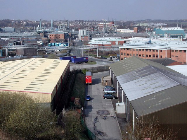 Morley Carr Looking down towards the industrial area at Low Moor, Bradford from the footpath between Birkby Street and Dealburn Road.